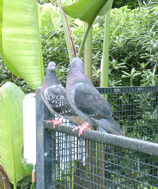 "Are you thinking what I'm thinking?" - Taken at SeaWorld California with an Olympus FE-115 digital camera.